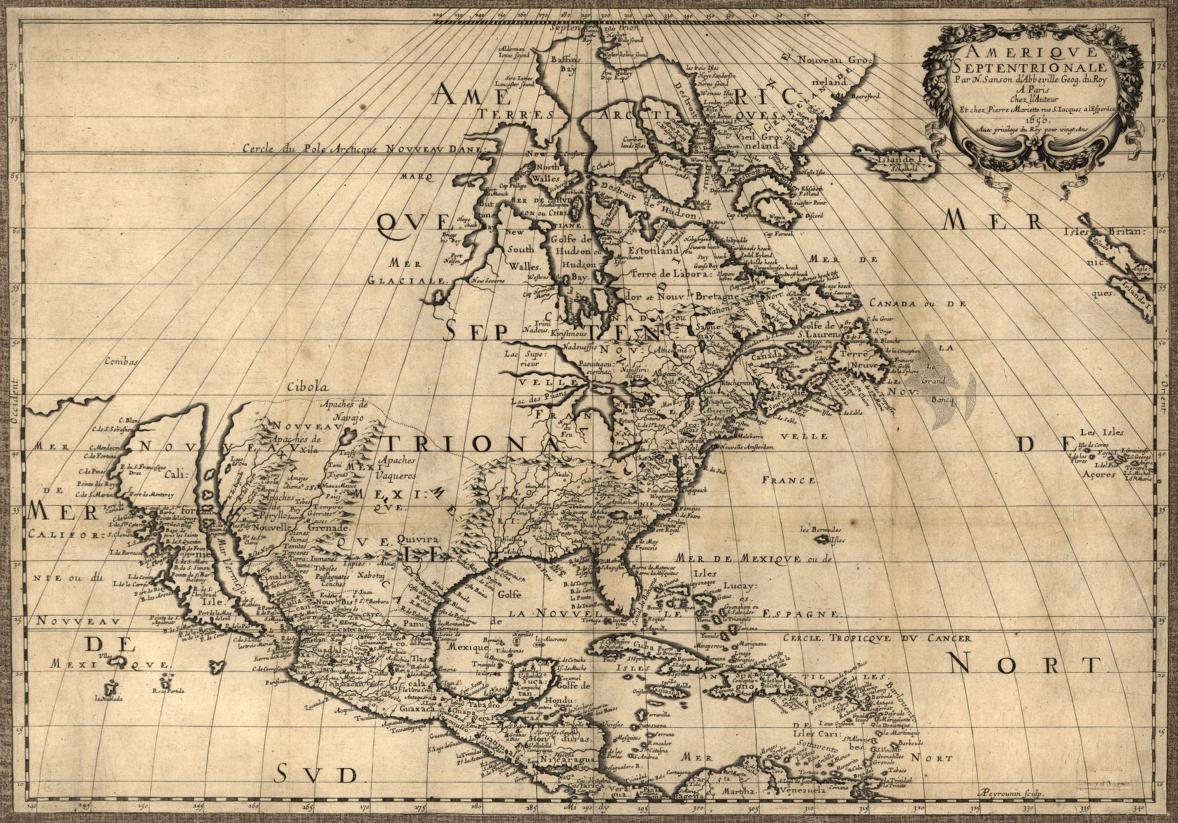 Amérique septentrionale old map